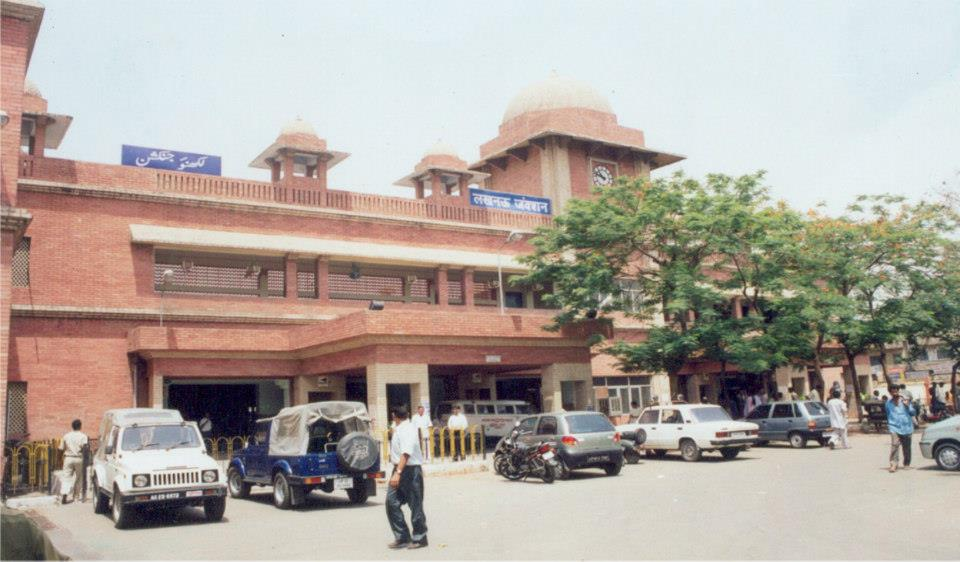 Lucknow Junction